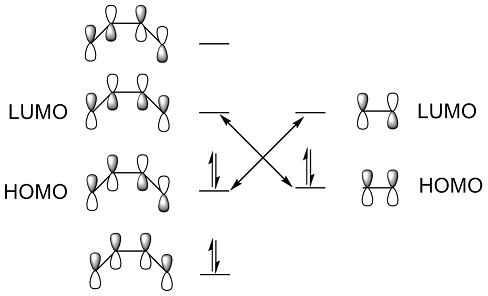 Electrocyclic addition of butadiene and ethene.